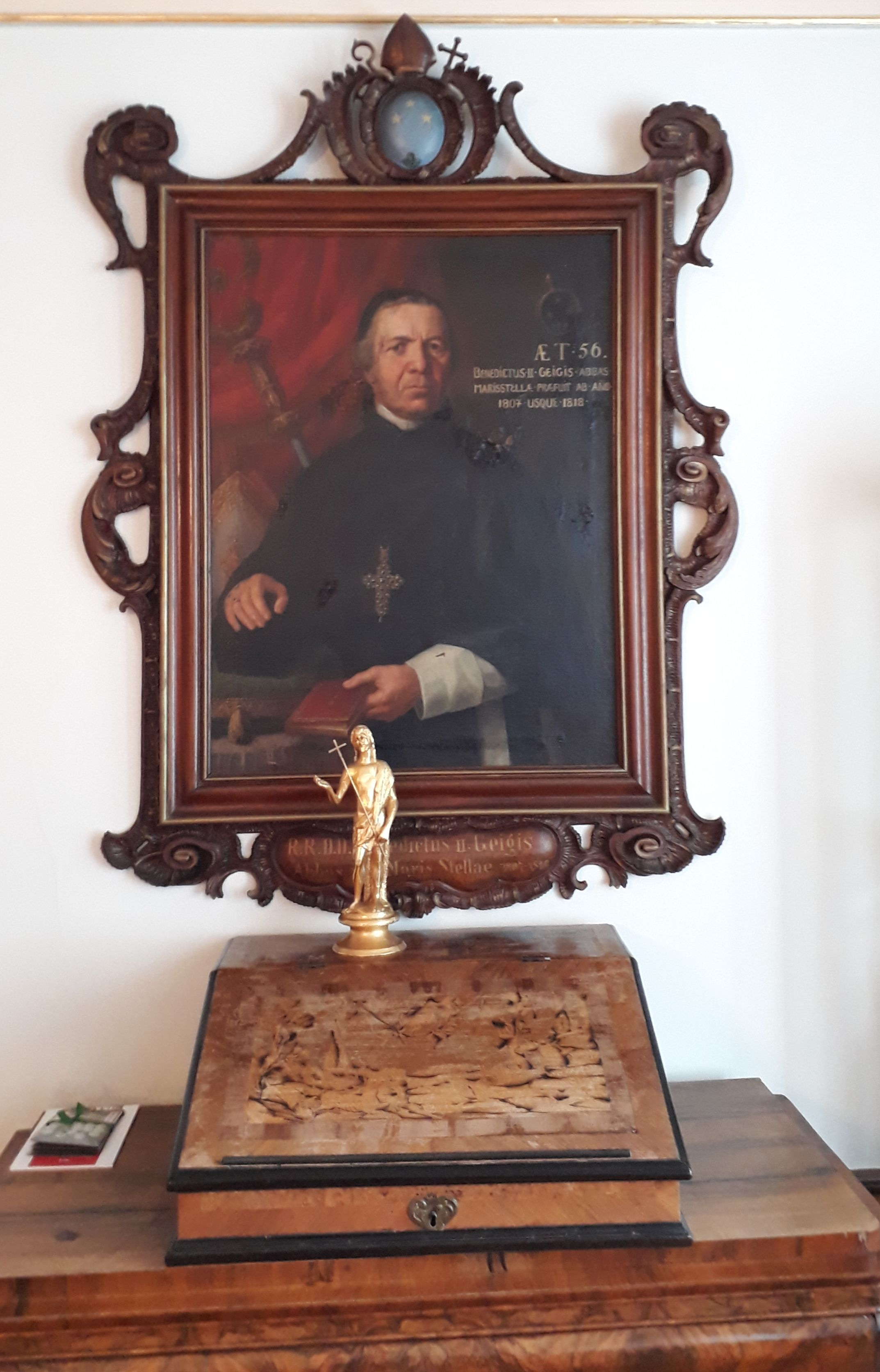 Mehrerau Abbey in Bregenz (Wettingen-Mehrerau Territorial Abbey), Vorarlberg, Austria. Painting of Father Benoît Geigis.